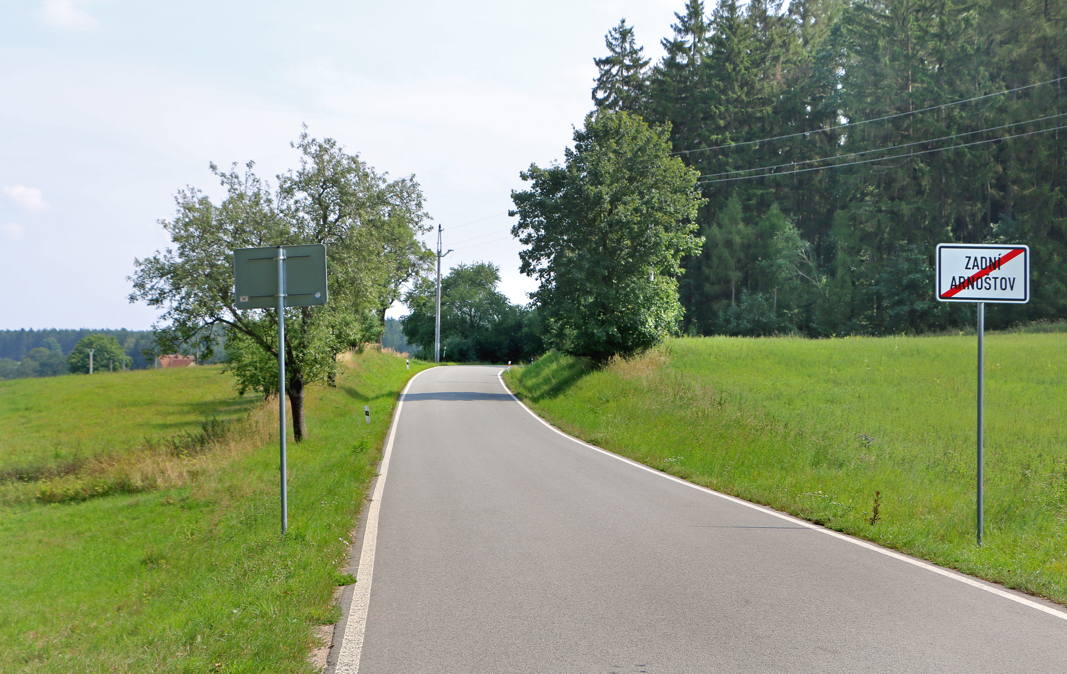 Road No 366 at Zadní Arnoštov, part of Pohledy, Czech Republic.